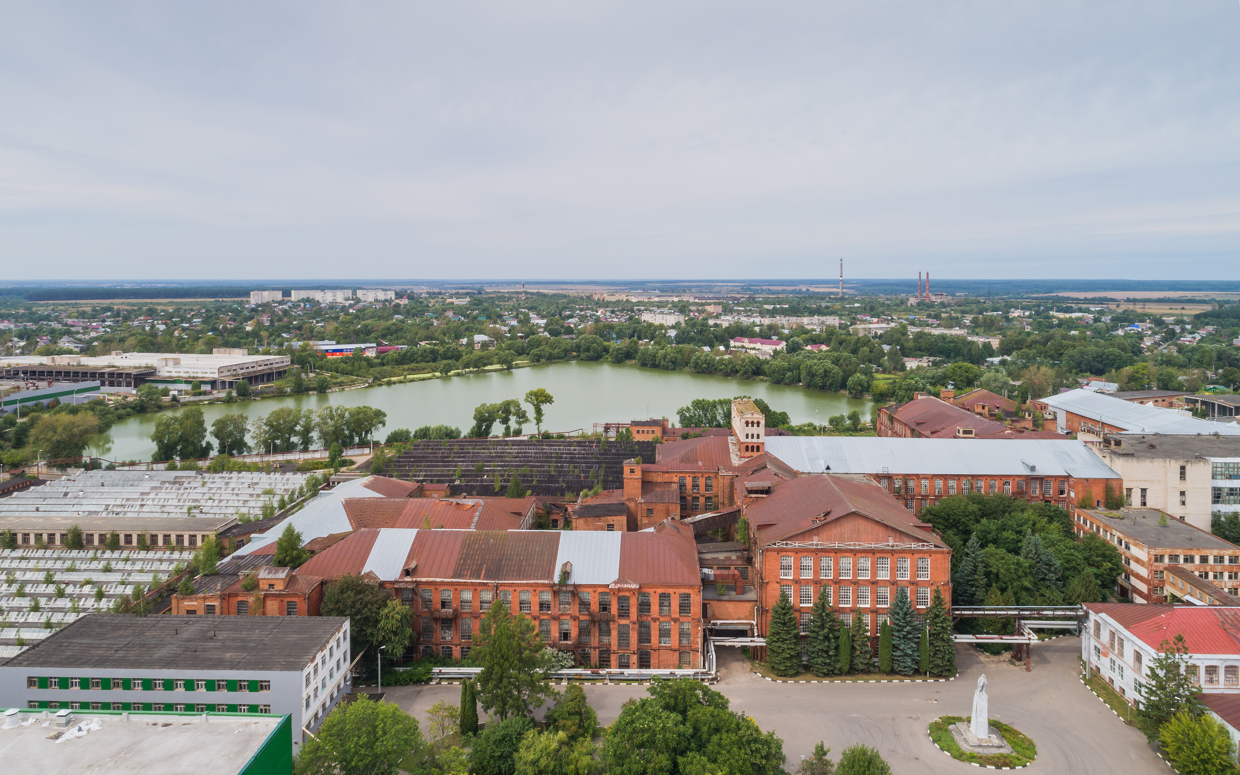 Aerial view of Rodniki, Ivanovo Oblast, Russia